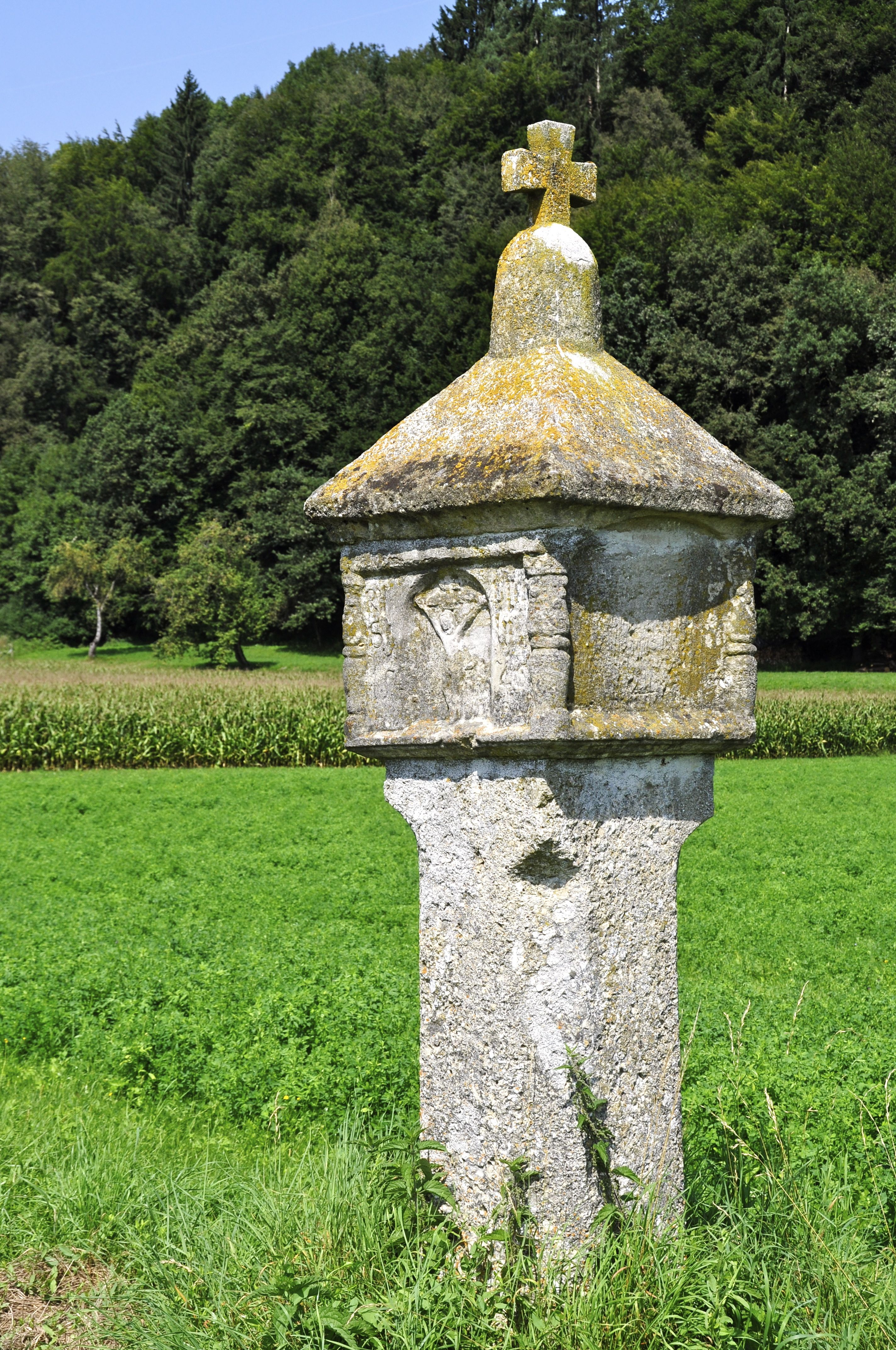 Burgfried pillar or prelate`s cross of the year 1546, marking the former Burgfried Neudenstein`s boundary point in the open fields north of Rakollach, municipality Voelkermarkt, district Voelkermarkt, Carinthia / Austria / EU